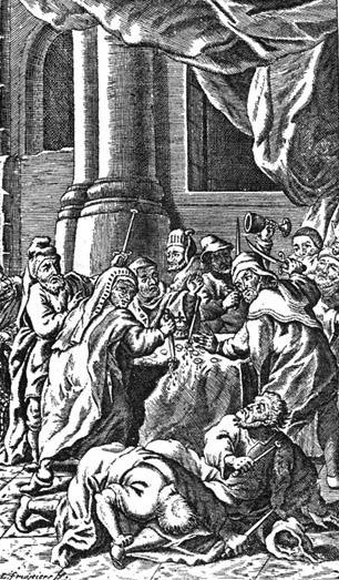 Jews depicted desecrating the Eucharist host. From a tapestry in the Cathedral of St. Gudule, Brussels, Belgium. Published in the 1901-1906 Jewish Encyclopedia, now in the public domain. Category:Jewish Encyclopedia images